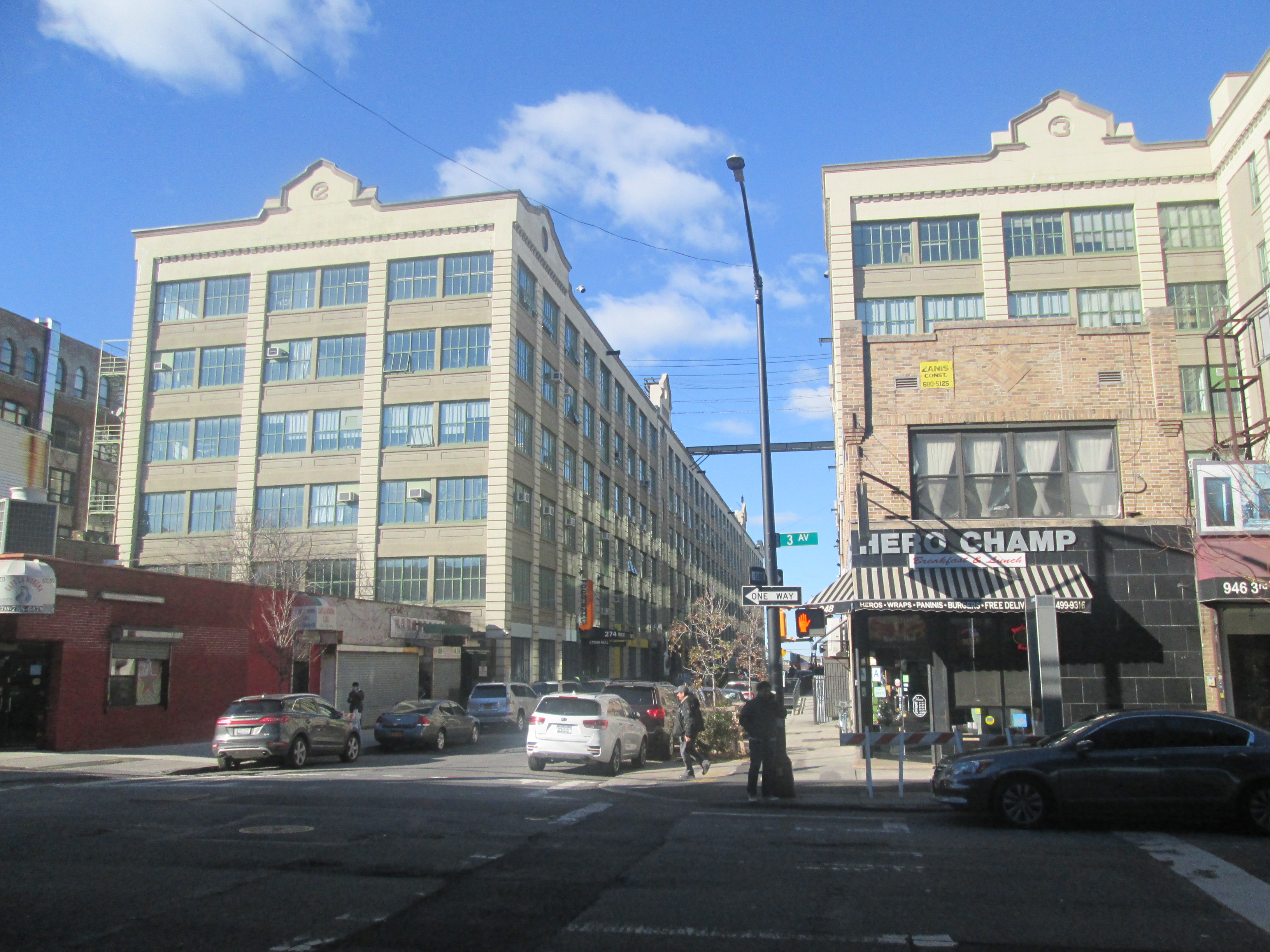 Industry City in Brooklyn, New York, seen on December 4, 2018